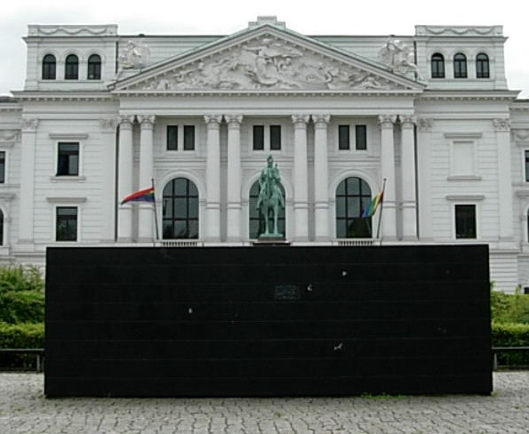 Sol Lewitt, Black Form Dedicated to the Missing Jews, Altona Rathaus, Hamburg/ Germany.